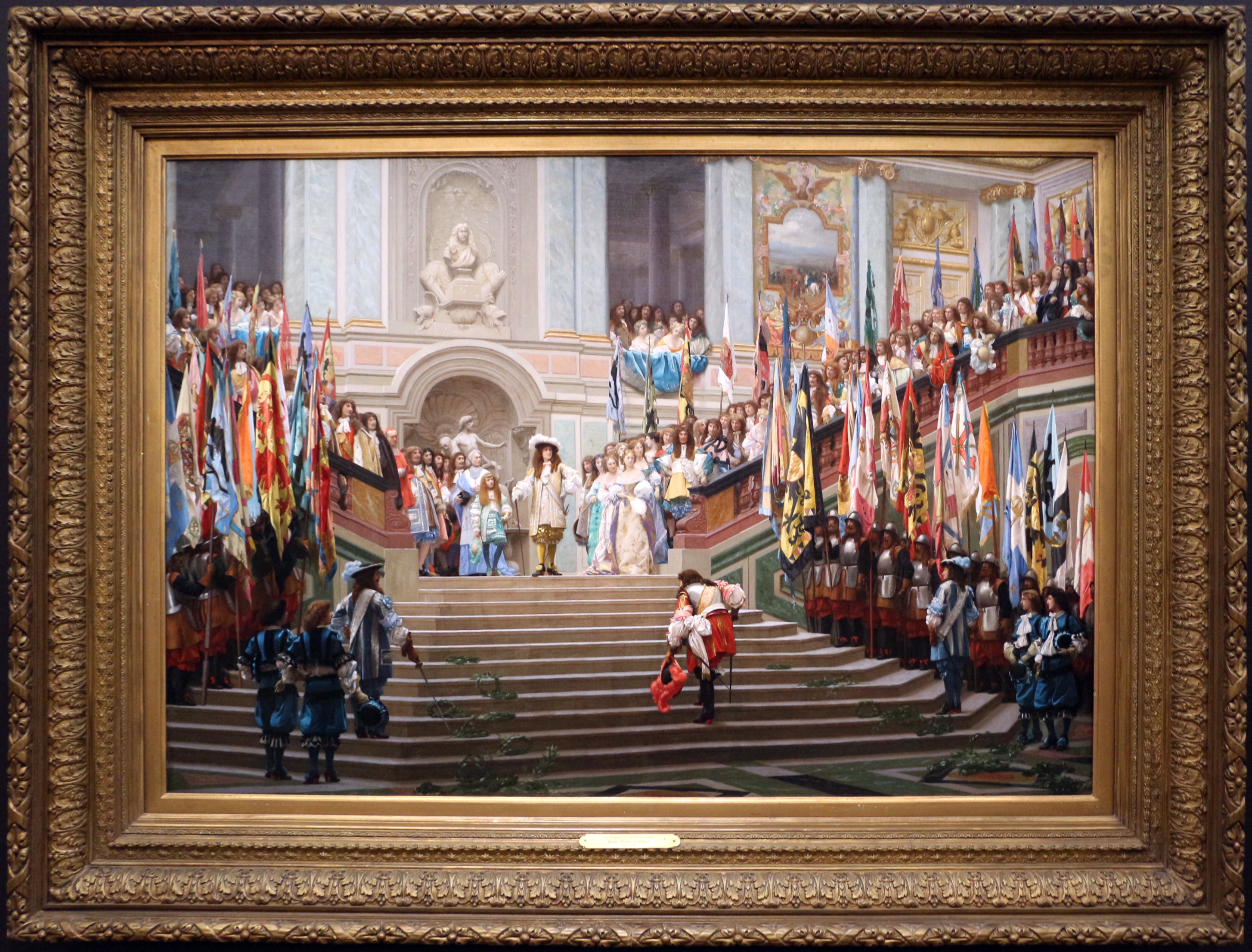 Paintings in Musée d'Orsay